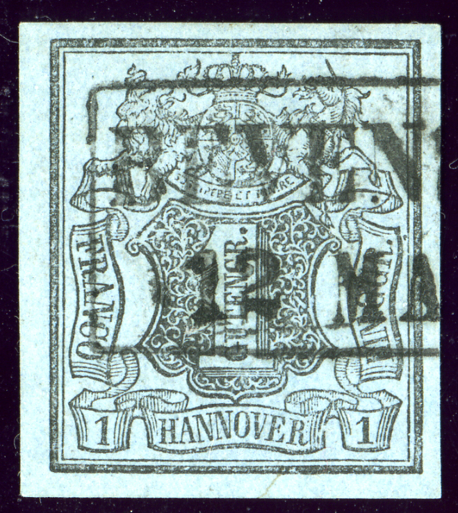 Stamp of Hannover kingdom, first issue 1850, 1 Gutengroschen (1/24) thaler, frame cancelled at BEVENSEN, Lower Saxony.